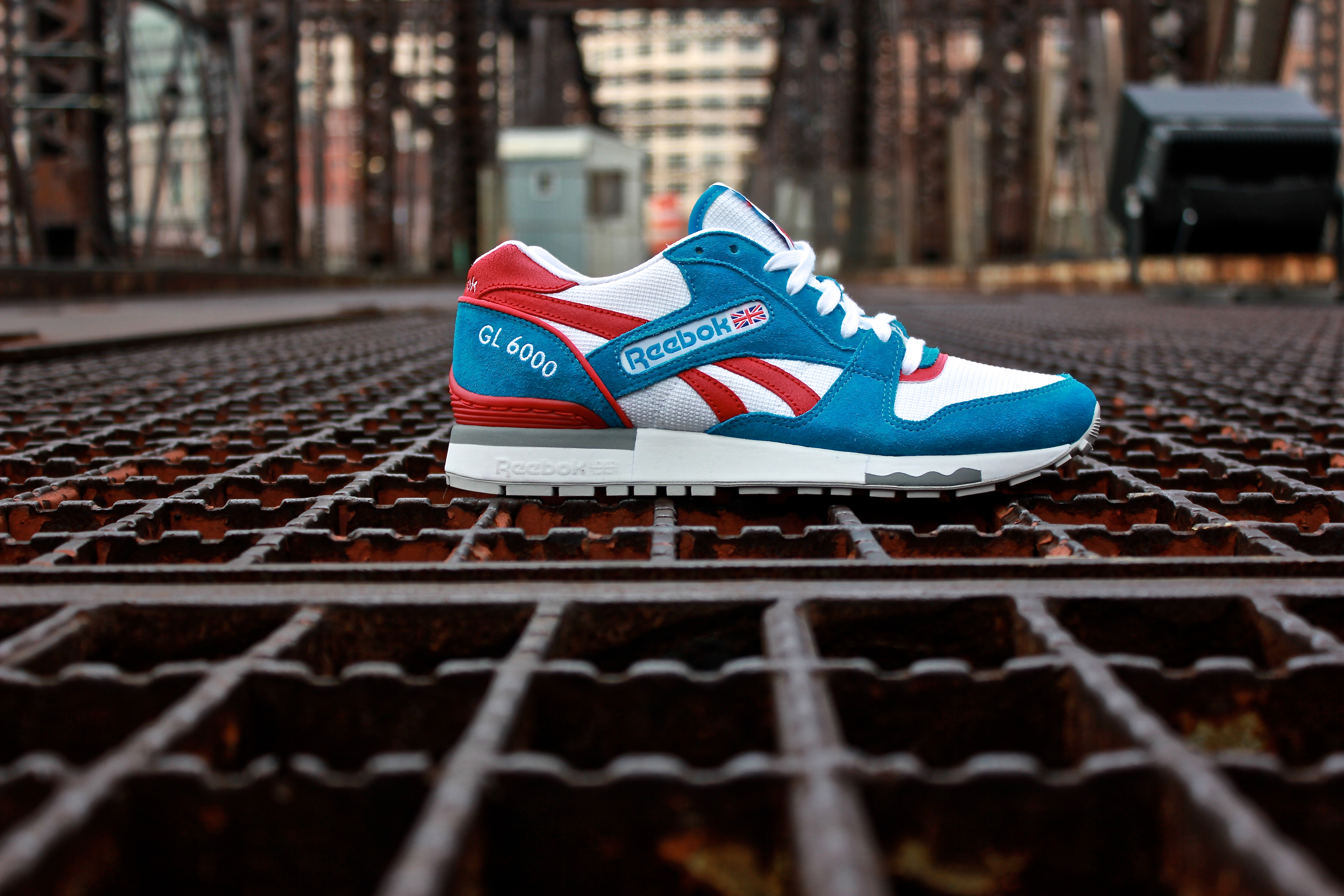 2014 GL 6000